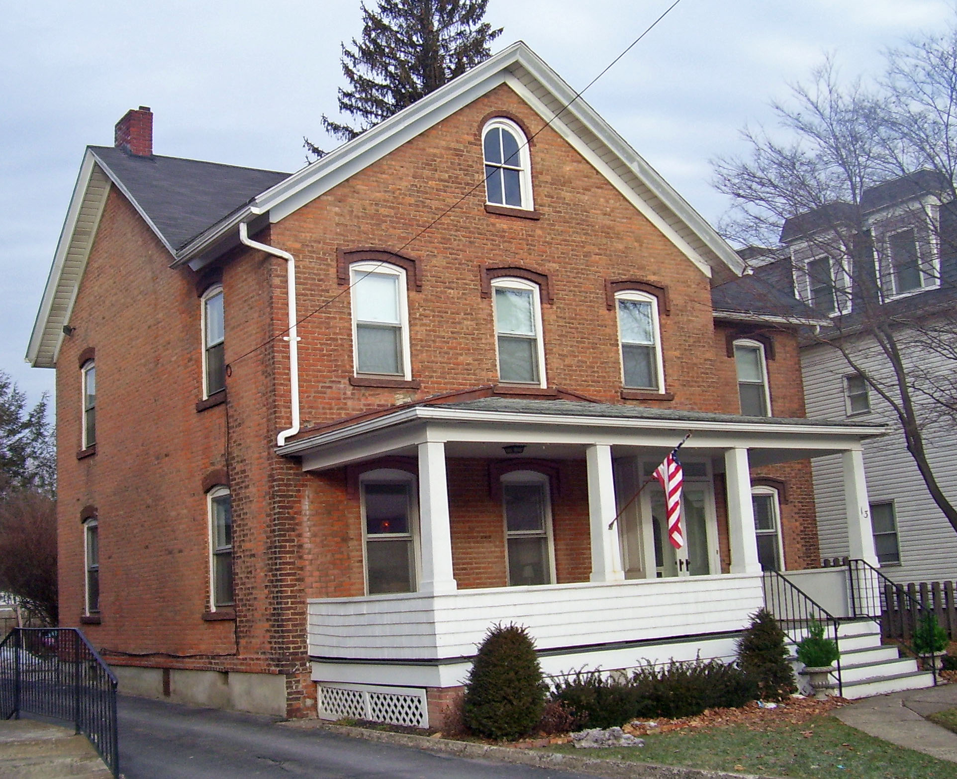 Rectory of St. Andrew's Episcopal Church, Walden, NY, USA.